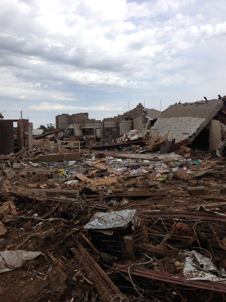 Tornado damage to elementary school building